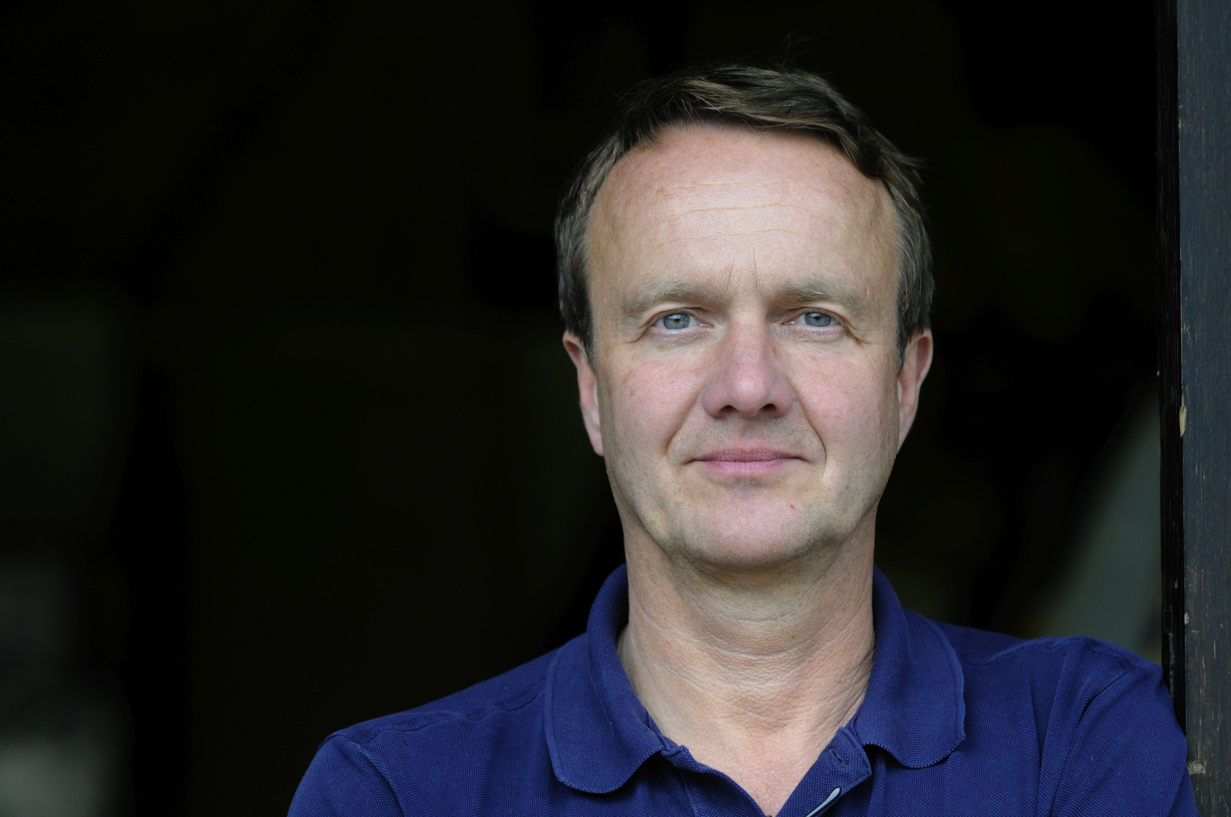 A picture of Thorsten Weckherlin